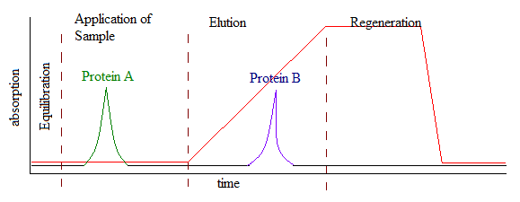 Chromatogram depicting the 4 main stages of Ion Exchange Chromatography. Protein A carries the same charge as the stationary phase and does not bind. Protein B binds and is later eluted from the stationary phase.